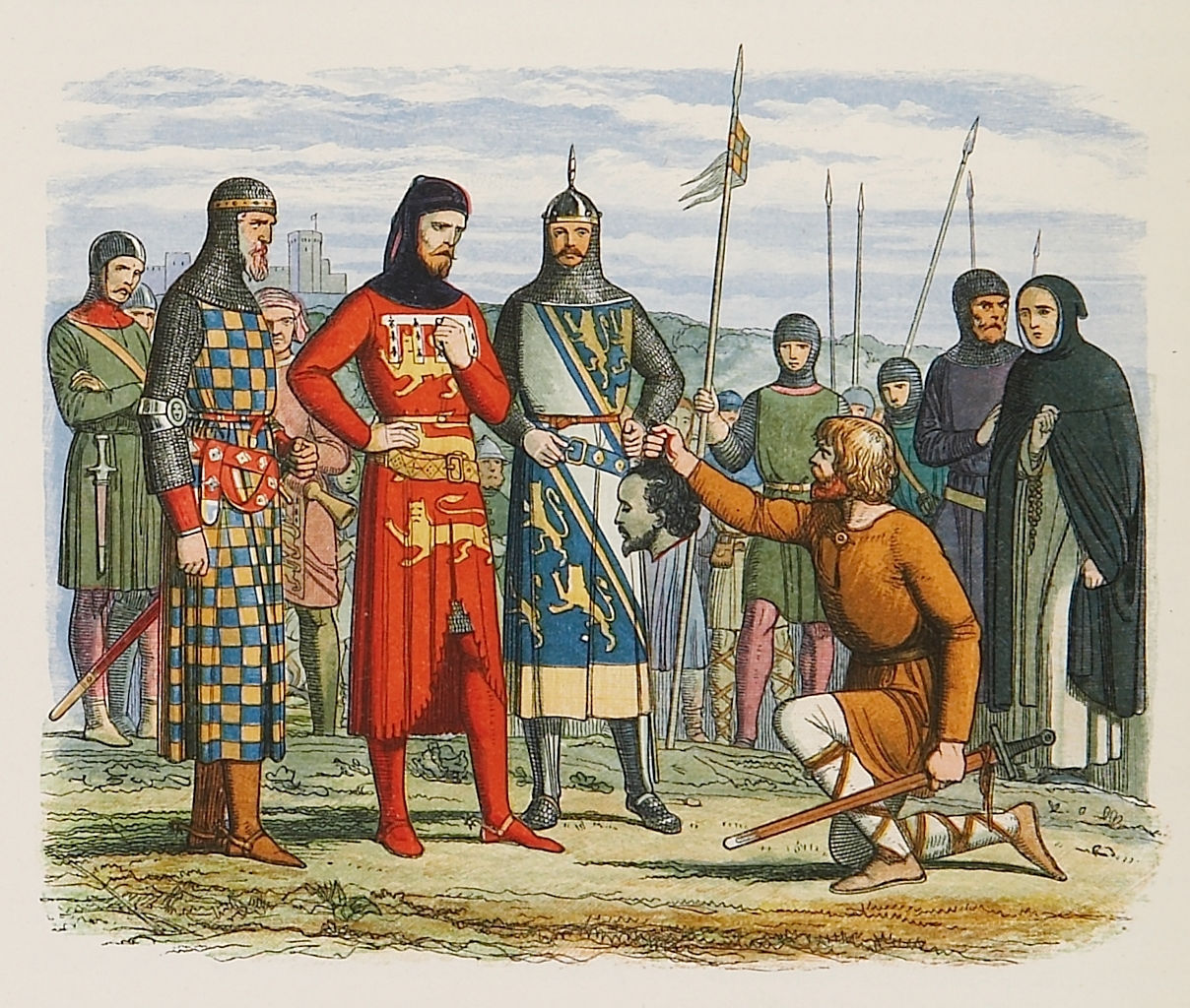 The head of Piers Gaveston, 1st Earl of Cornwall, is delivered to Thomas, 2nd Earl of Lancaster; Humphrey de Bohun, 4th Earl of Hereford; and Edmund FitzAlan, 9th Earl of Arundel, for inspection. This was published in: Doyle, James William Edmund (1864) "Edward II" in A Chronicle of England: B.C. 55 – A.D. 1485, London: Longman, Green, Longman, Roberts & Green, pp. p. 280 Retrieved on 12 November 2010.